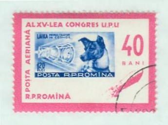 Stamp of Romania: Spaceflight: the dog Laika in the Sputnik 2